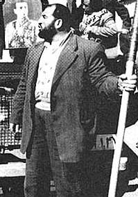 Shaban Jafari (1921-2006) holding an Iranian flag in the streets of Tehran near a truck with men holding a portrait of Shah Mohammad Reza Pahlavi during 1953 Iranian coup d'état